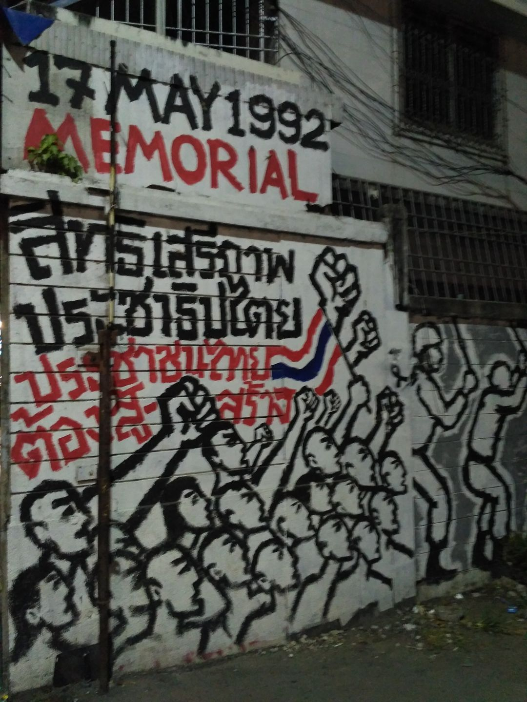 Bangkok May 1992 protests memorial graphity near Khao San road